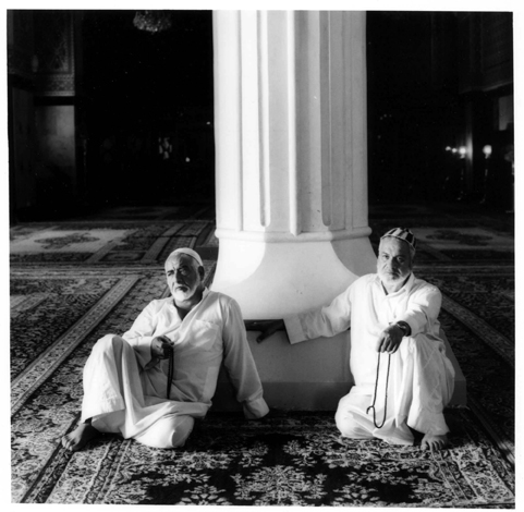 "In moschea" by Alberto Terrile, 1993